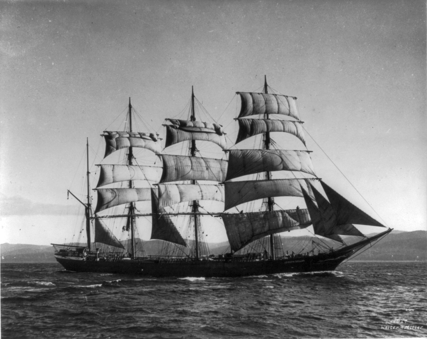 Original caption: “JOSEPH DOLLAR” Reproduction Number: LC-USZ62-66442